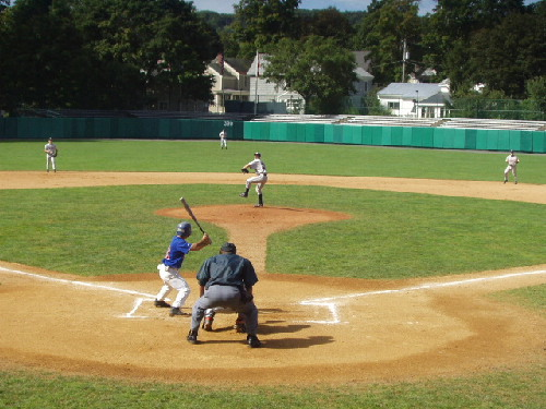 Photo taken August 31st, 2003. 19:27, 5 October 2006 . . Flibirigit . . 500×375 (90,719 bytes) (Photo taken August 31st, 2003.)